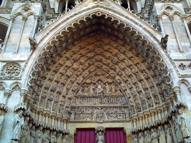 Tympanum west portal Amiens cathedral